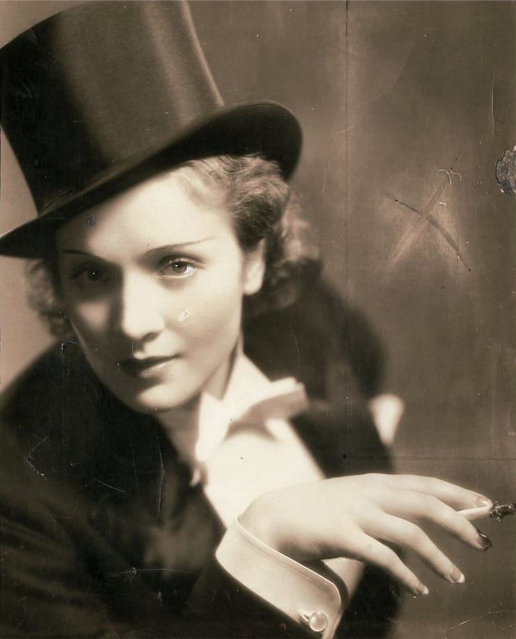 Morocco (film) 1930. Josef von Sternberg, director. Marlene Dietrich with top hat. Paramount Pictures.